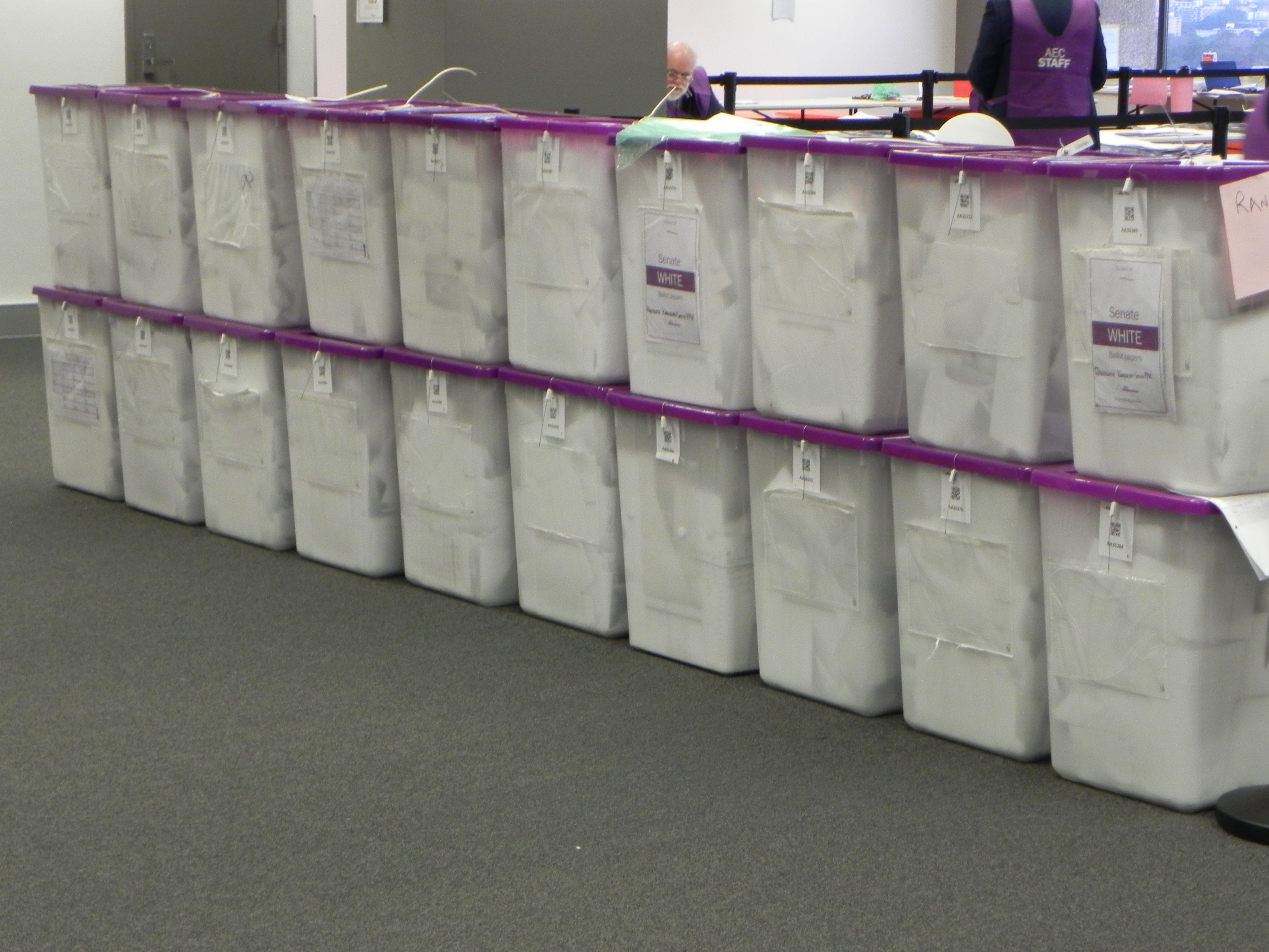 Australian Electoral Commission image library, 2016 federal election. Senate ballot papers.